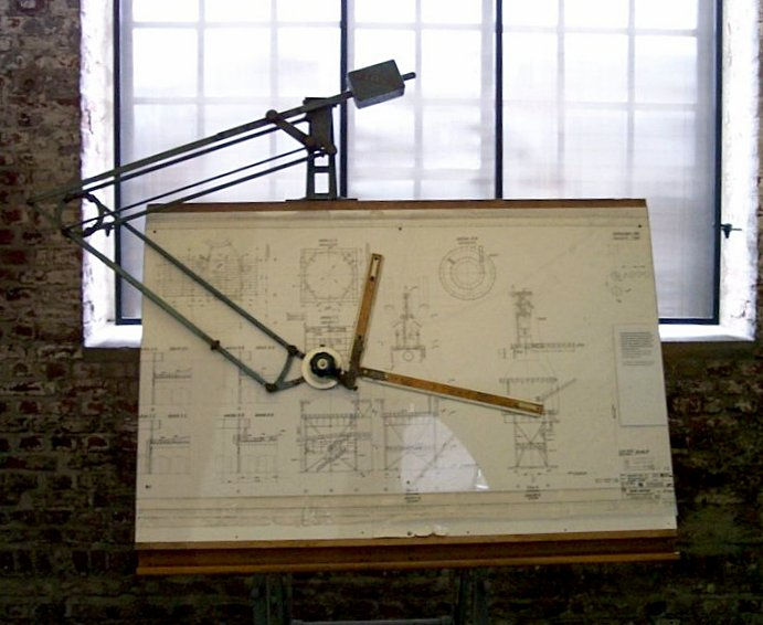 historic drafting board with double parallelogram linkages and balancing mass